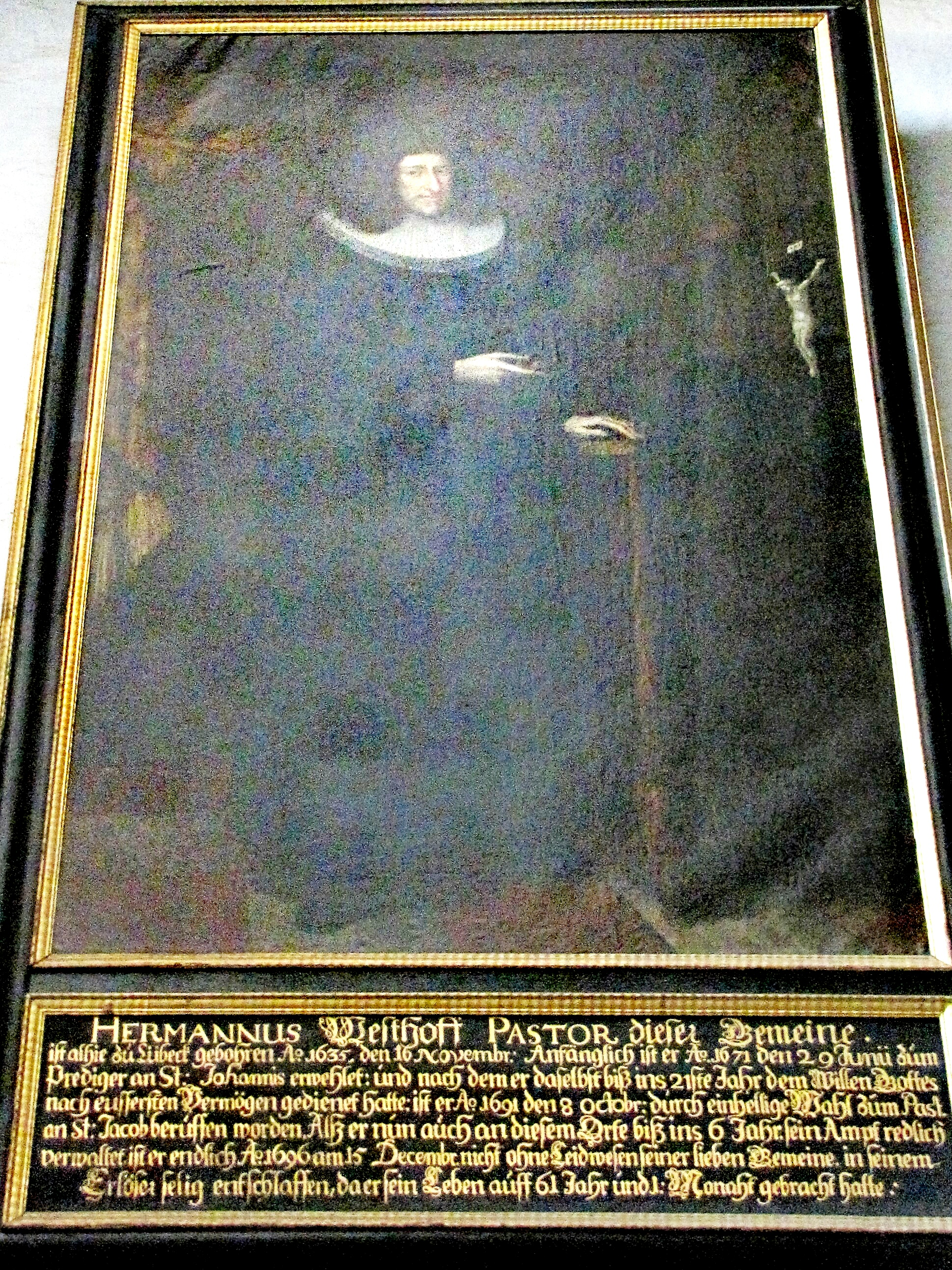 Memorial portrait of Pastor Hermann Westhoff ( + 1696) in St. Jakobi, Lübeck